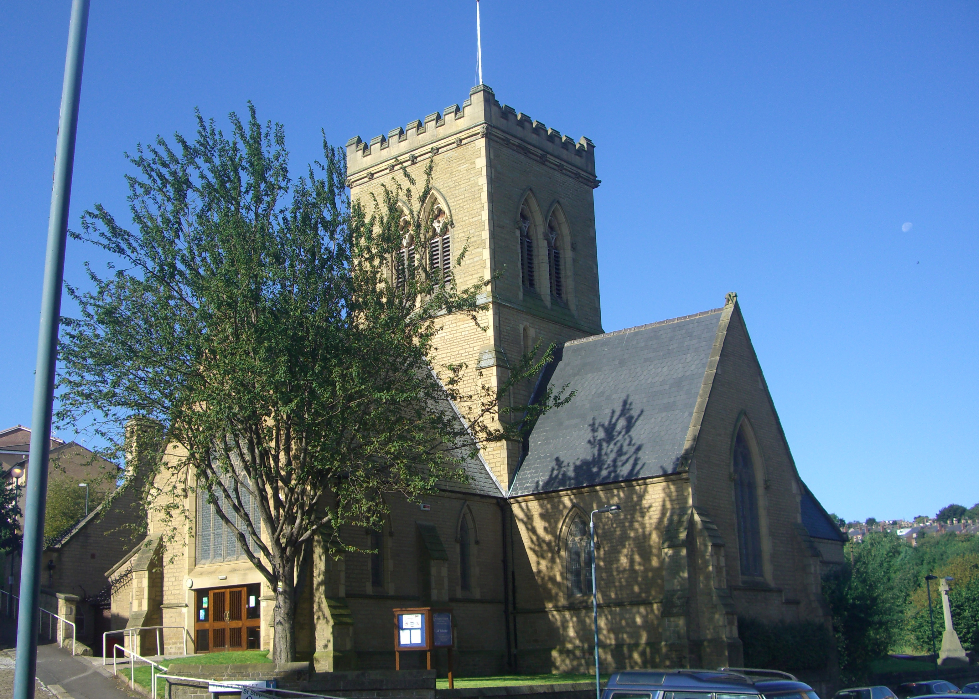 St Stephen's parish church, Netherthorpe, Sheffield, South Yorkshire